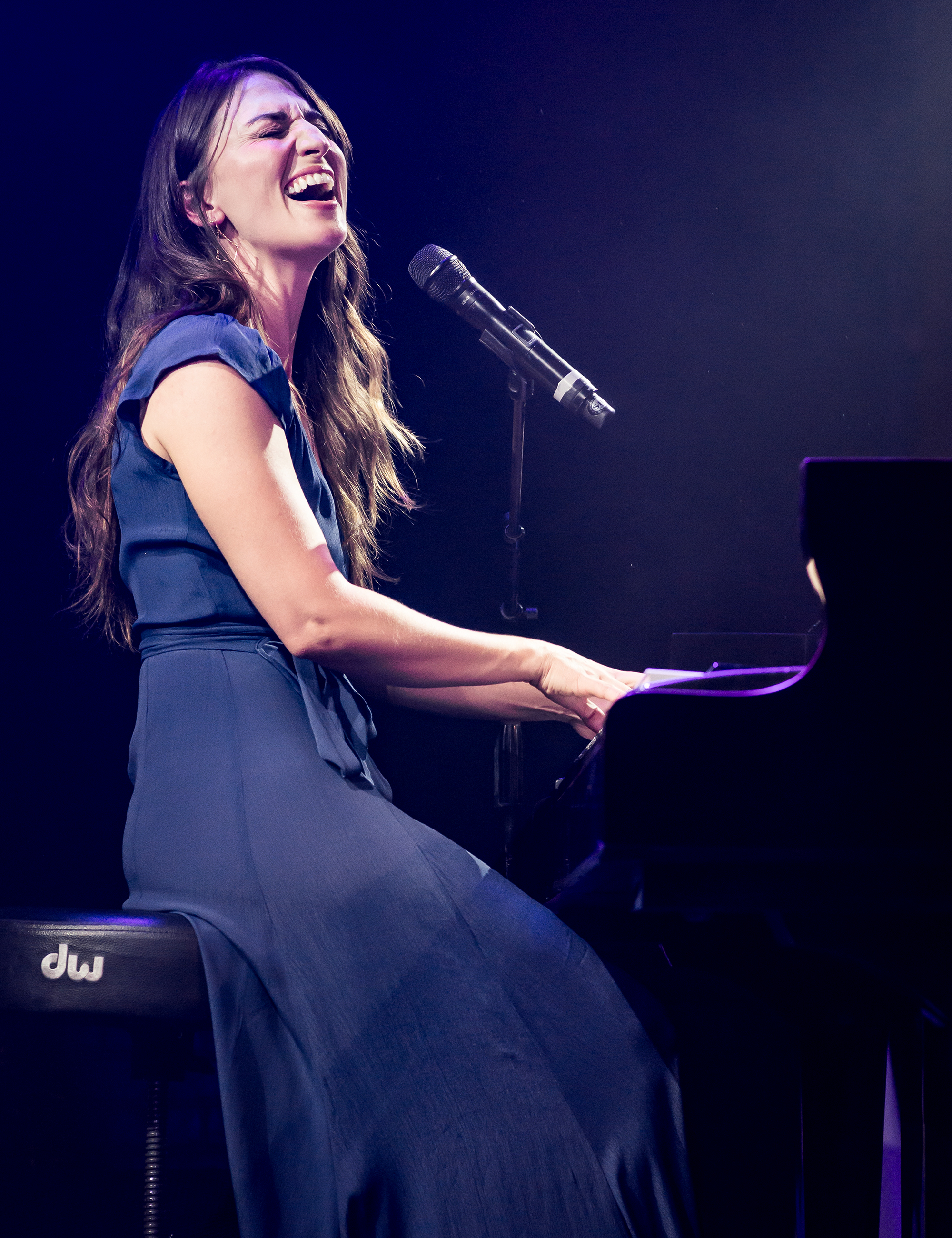 Sara Bareilles performing live at The Troubadour in Los Angeles California on Tuesday, October 13, 2015. These are remastered shots for use by The Troubadour.